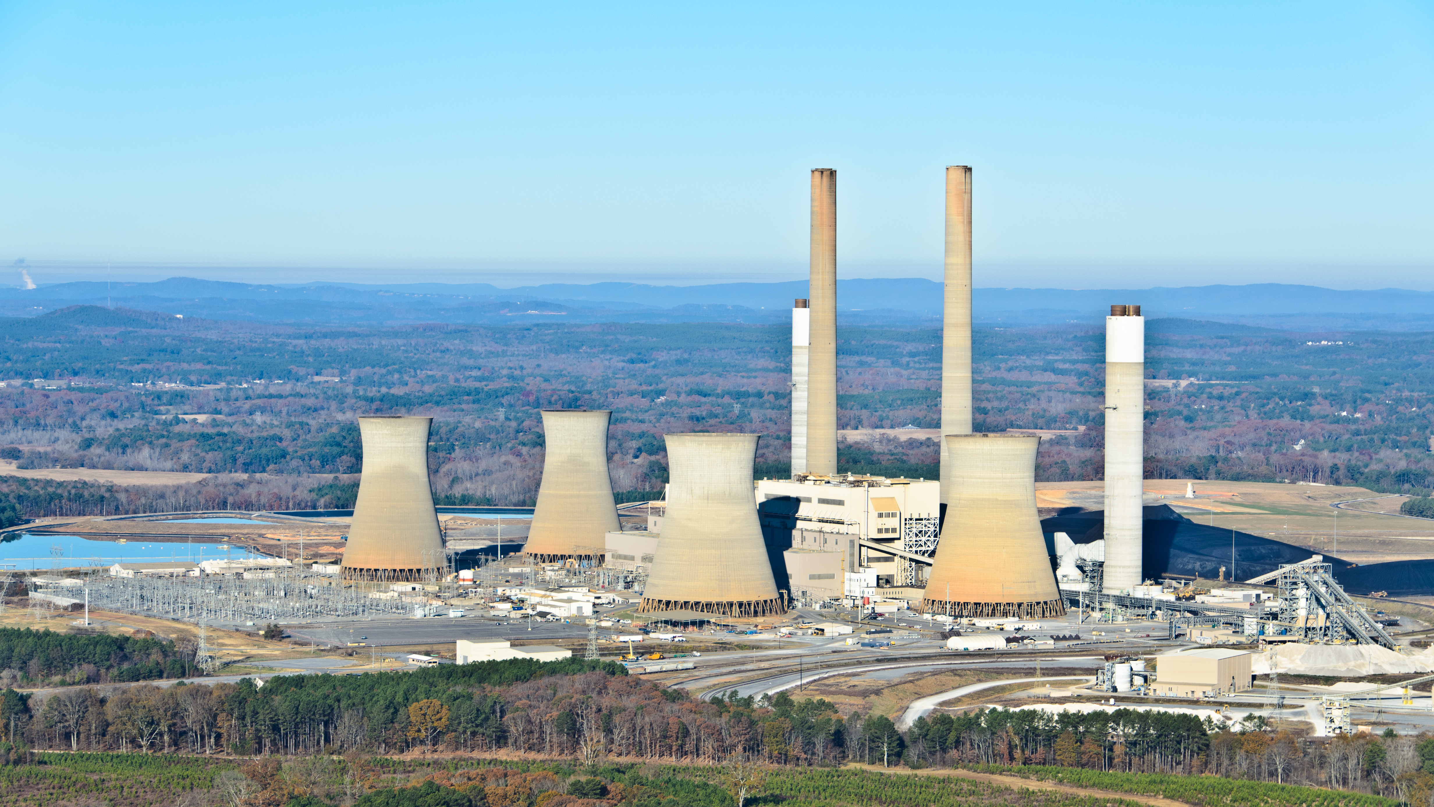 Period of inactivity on a Sunday morning.